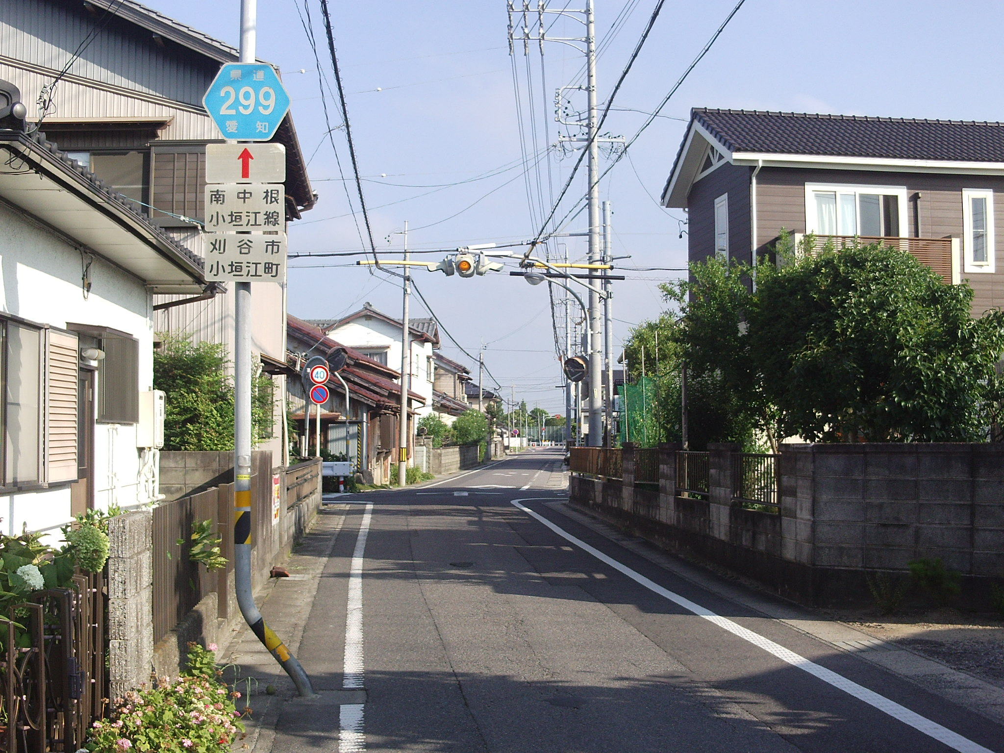 Aichi prefectural road No.299 in Ogakie, Kariya, Aichi.